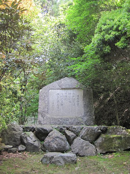 Kenji Miyazawa monument, at the Enryaku-yi monastery on Mount Hiei, in Otsu, capital of the Shiga prefecture in Japan.